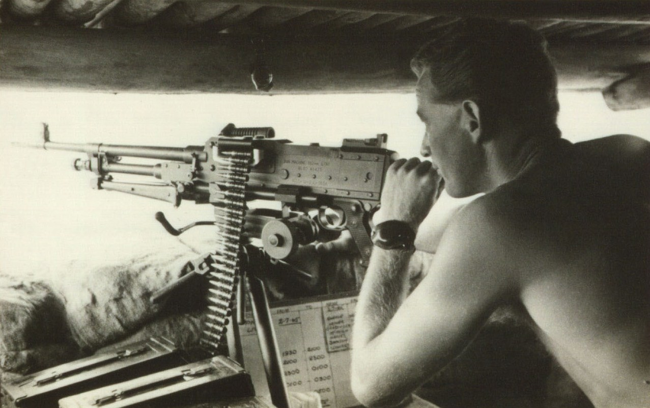 L/Cpl Brian Swayne from 3 RAR on active duty in Borneo during the confrontation with Indonesia. The entrance to B Company forward camp referred to at the time as FOO Bukit Knuckle.(Input from Dave1185: The 7.62mm MAG58 machine gun is actually the Australian version of the Belgian FN MAG produced under license.)